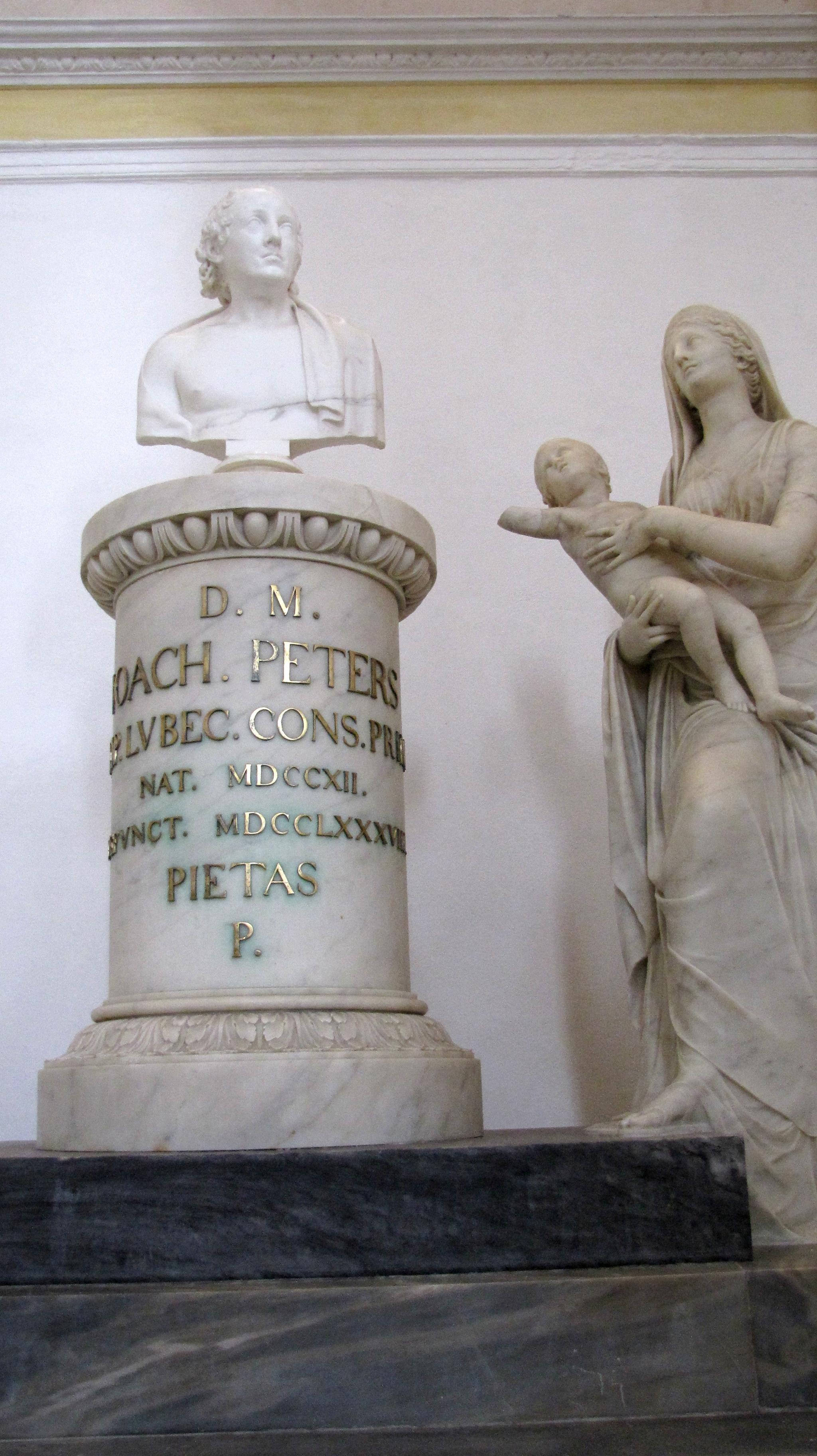 Epitaph for mayor Joachim Peters in St. Marien by Landolin Ohmacht